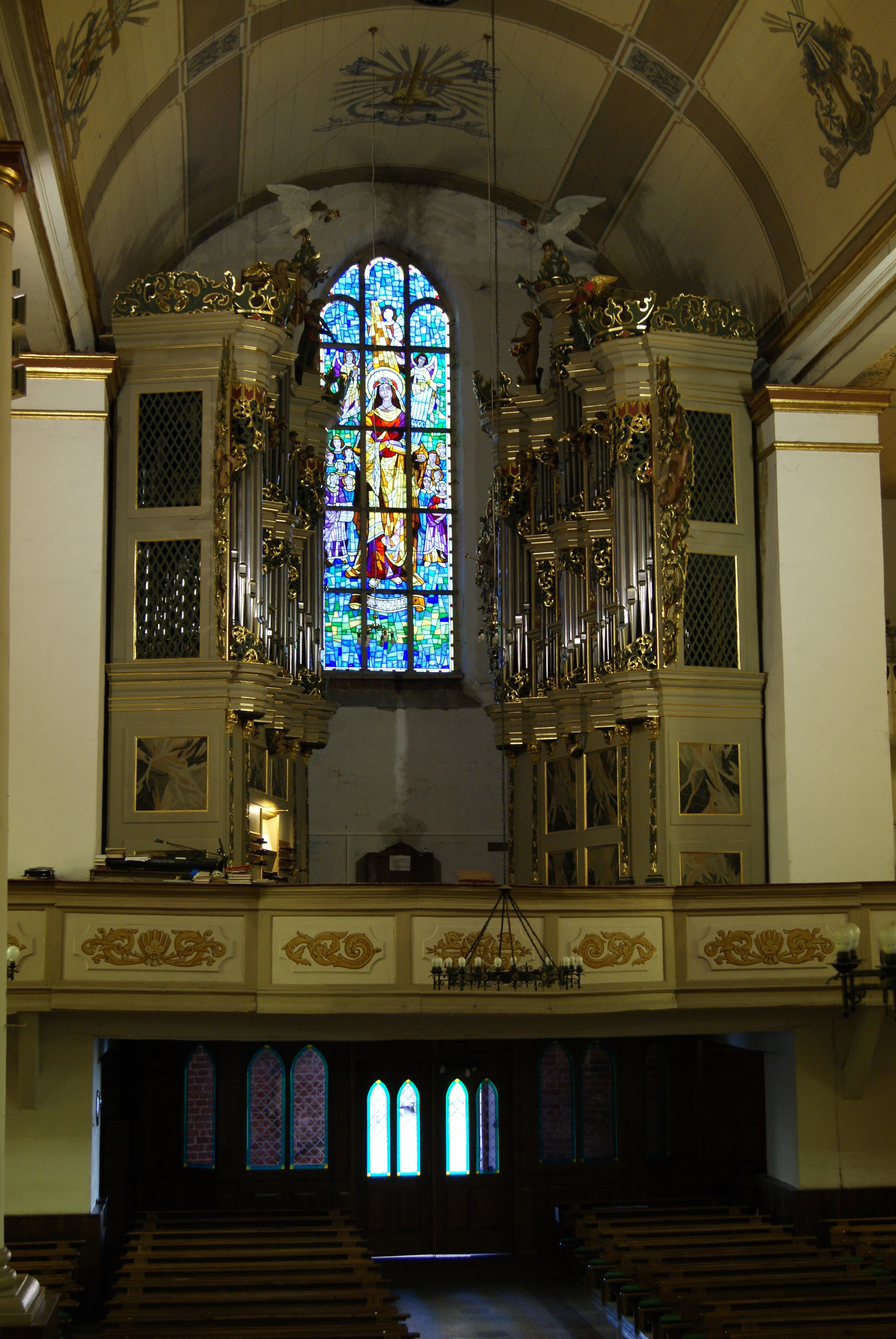 Restored organ case of the Andreas Hildebrandt organ from 1717-1719 in Pasłęk